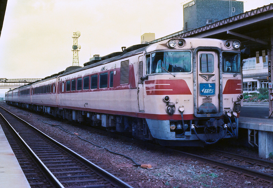 JNR KiHa 80 series DMU on an Ozora limited express service in Hokkaido, Japan